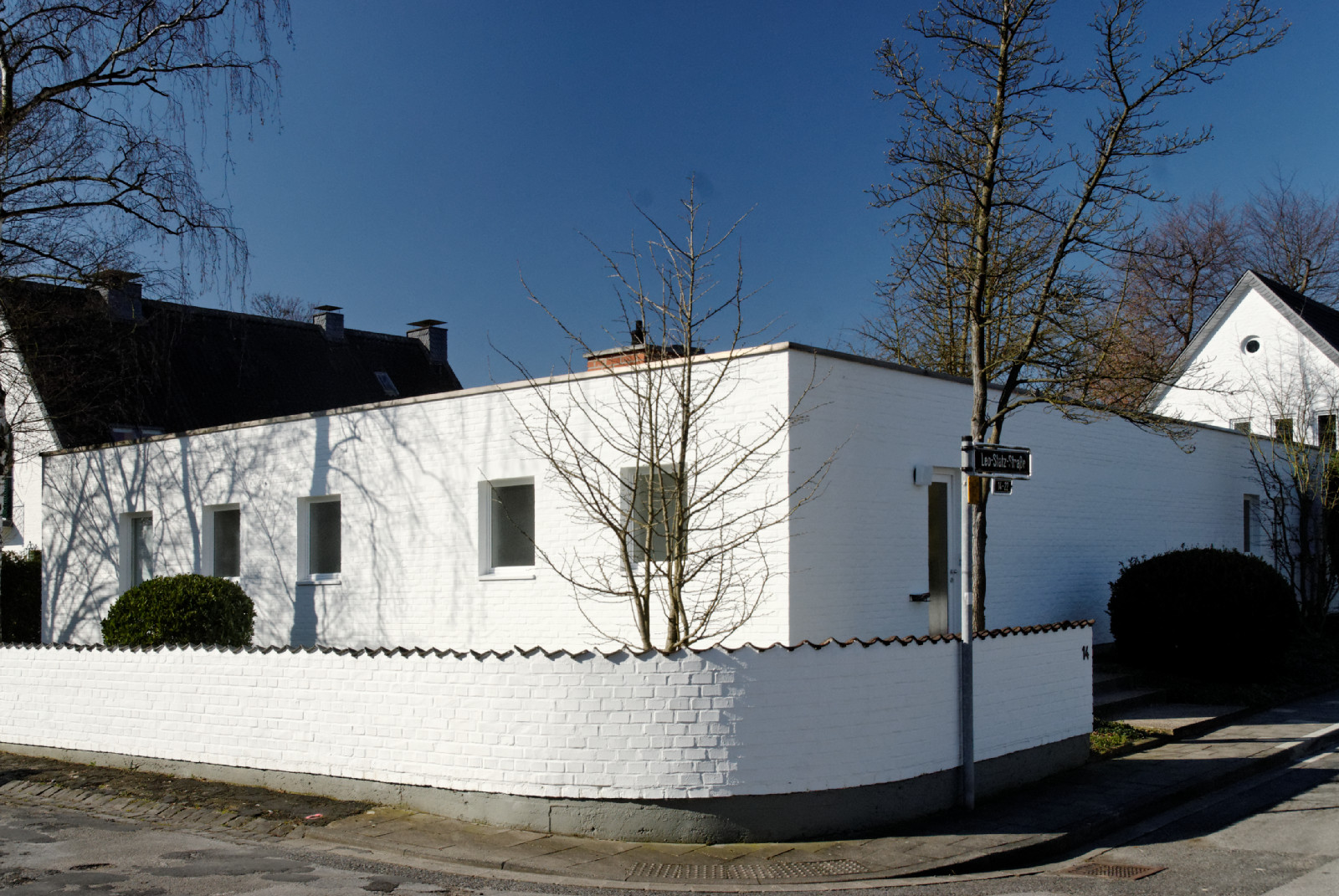 House Leo-Statz-Straße 14 in Düsseldorf-Golzheim, Germany